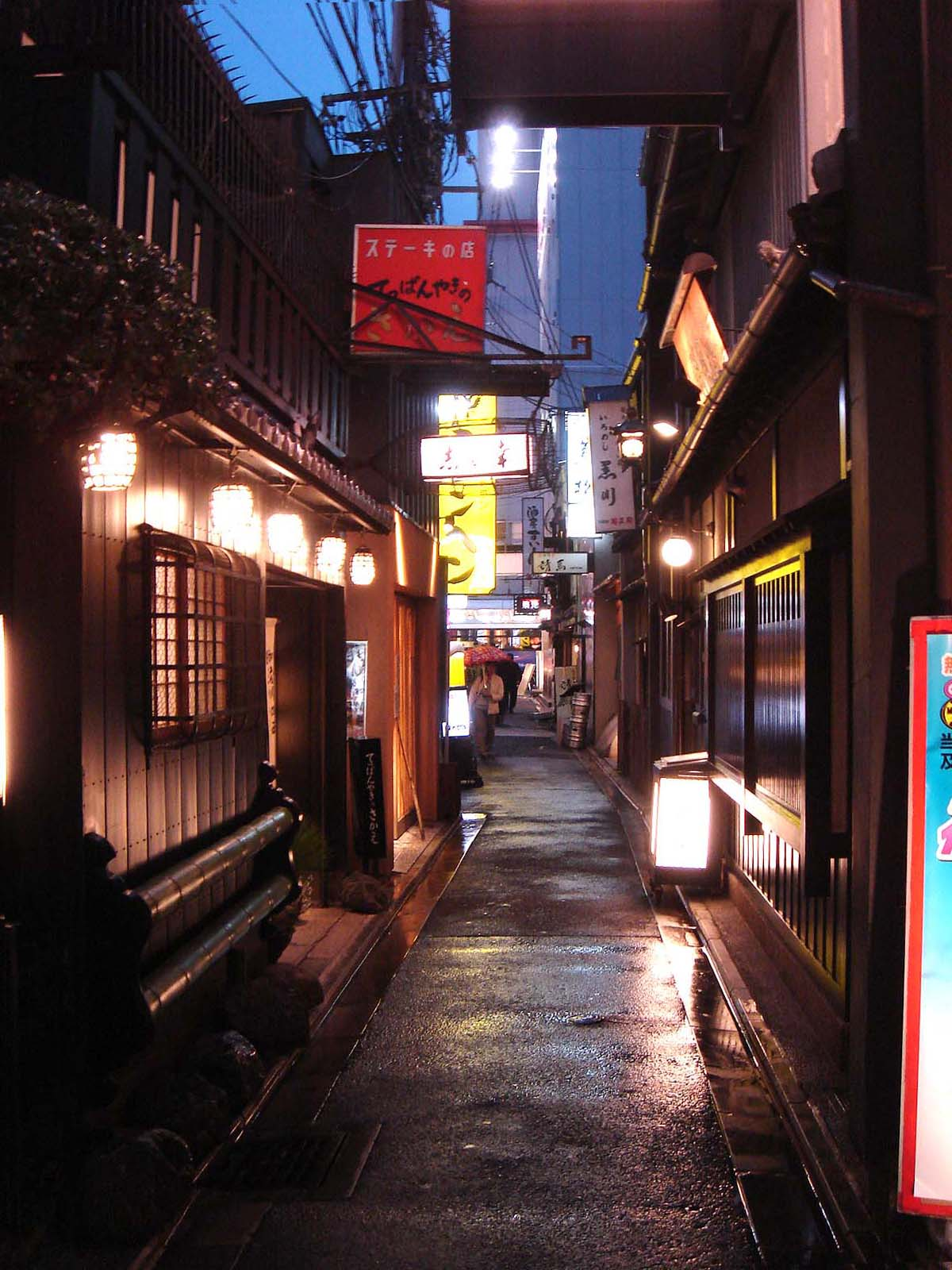 Former fed light district. If you're a foreigner, it's difficult to get in (even if you wanted).